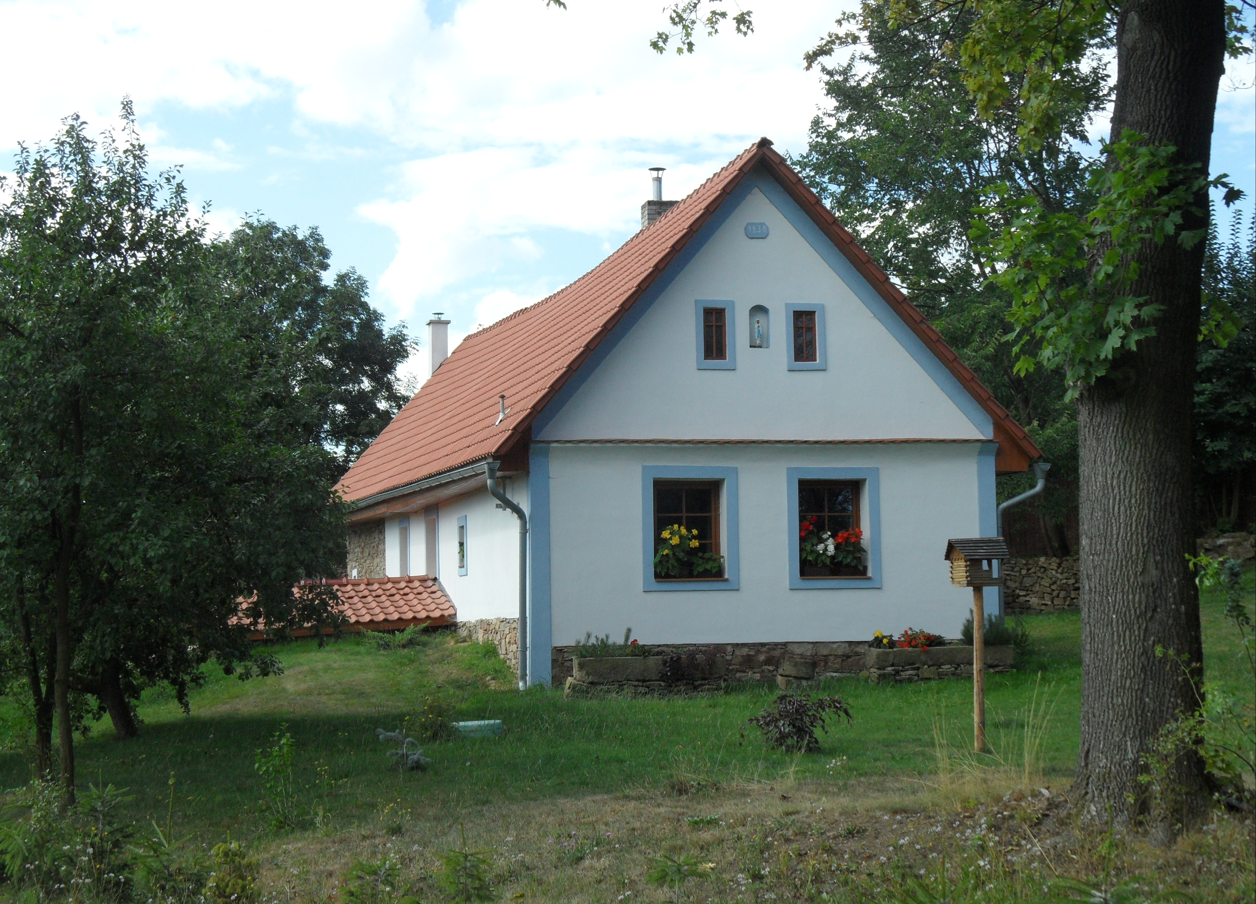 Chlístovice (Pertoltice) A. Country House, Kutná Hora District, the Czech Republic.